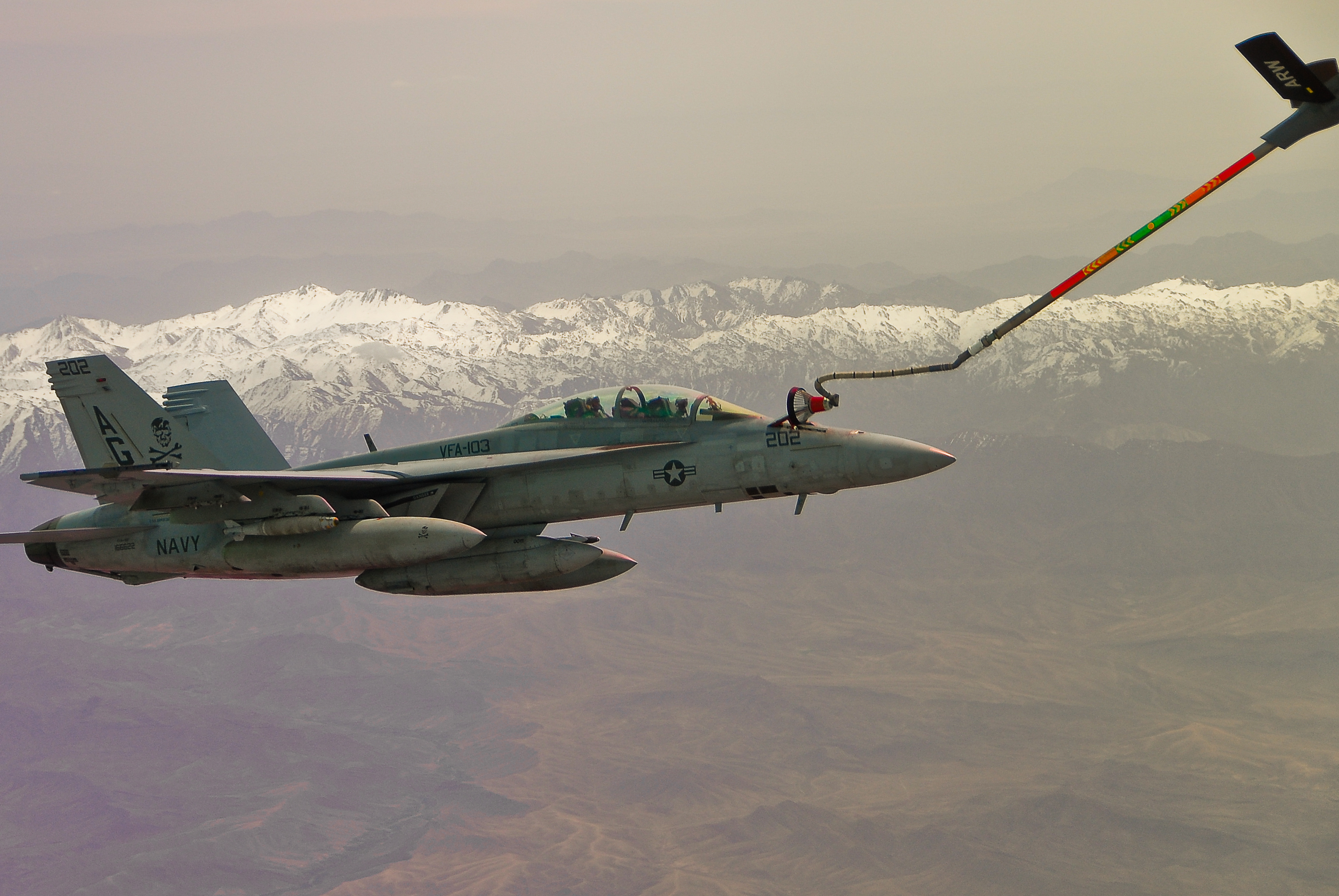 MIDDLE EAST (April 29, 2009) An F/A-18F Super Hornet from the "Jolly Rogers" of Strike Fighter Squadron (VFA) 103 refuels in flight with a U.S. Air Force KC-135 over Afghanistan during a mission supporting coalition forces. VFA-103 is part of Carrier Air Wing 7 embarked aboard the aircraft carrier USS Dwight D. Eisenhower (CVN 69). The Eisenhower Carrier Strike Group is underway on a scheduled deployment supporting Operation Enduring Freedom and the on-going rotation of forward-deployed forces to support maritime security operations and operate in international waters across the globe. (US Navy photo by Lt. Charlie Escher/Released)